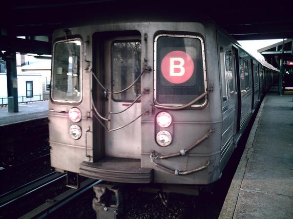 Bronx-bound B train of R68s at Kings Highway